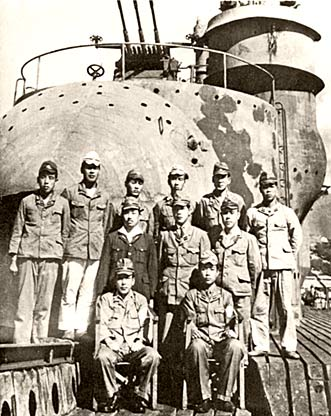 Officers of the I-400, photographed by the US Navy after its capture at sea 1 week after the end of the hostilities. US NAVY photograph. Public Domain.